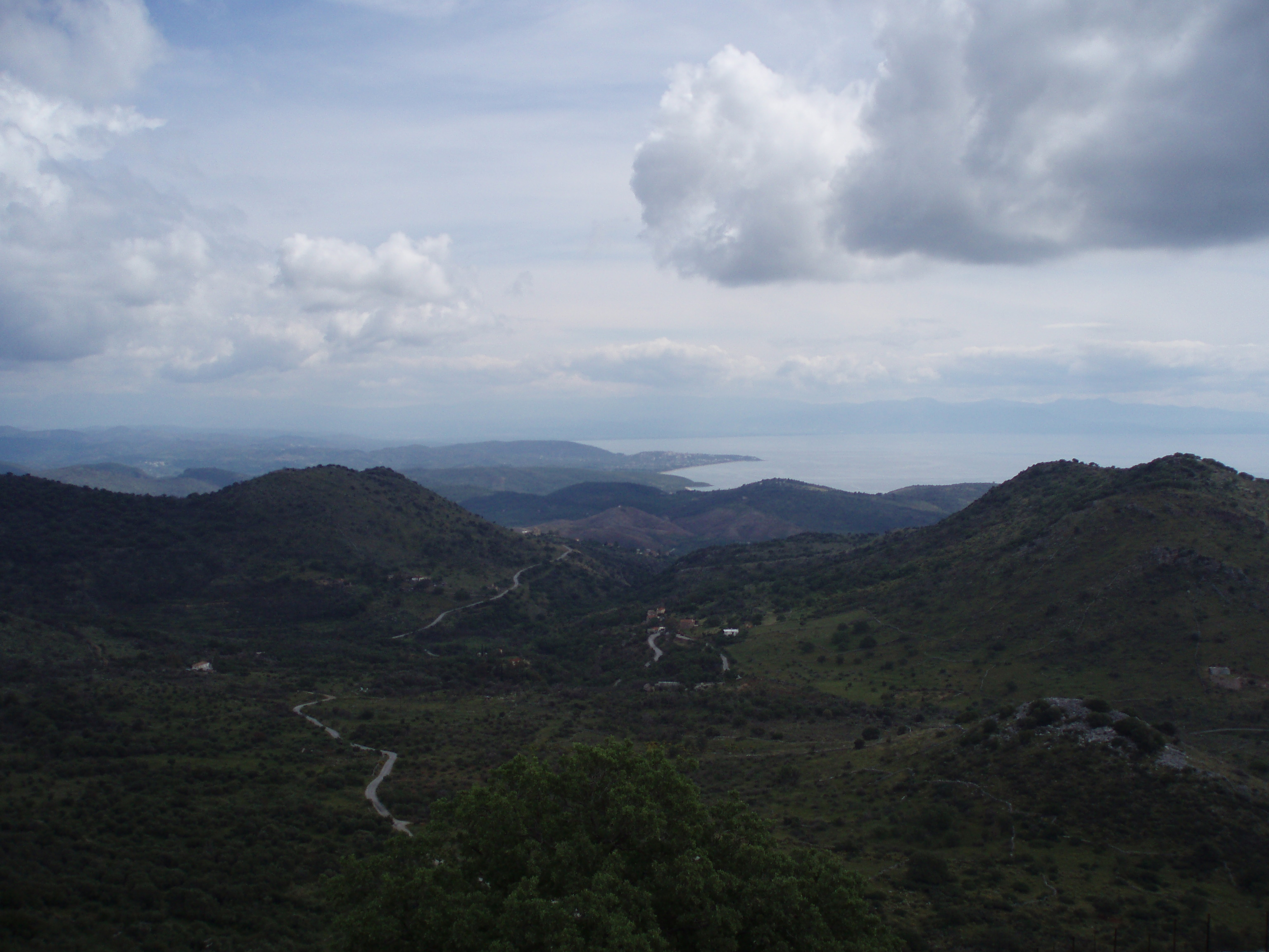 View of Lakonikos gulf from Mavrovouni (Black Mountain), in Laconia Prefecture, Greece